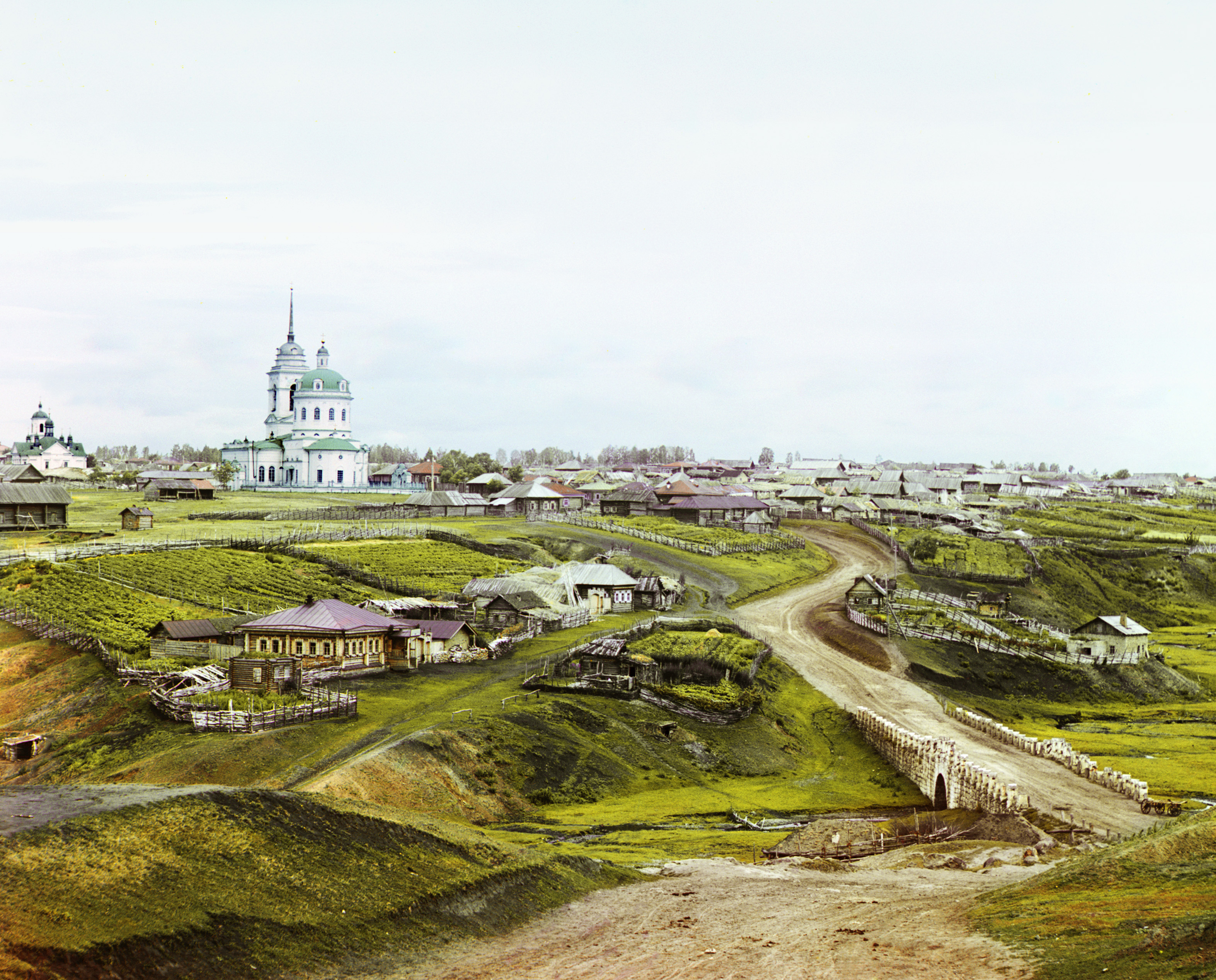 Early color photograph from Russia, created by Sergei Mikhailovich Prokudin-Gorskii as part of his work to document the Russian Empire from 1909 to 1915. The Village of Kolchedan in Ural Mountains, taken in 1912.